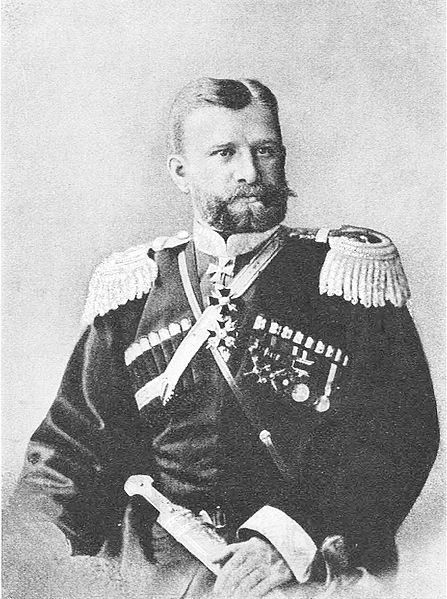 Georgi von Stackelberg (1851–1913), Russian general of the cavalry